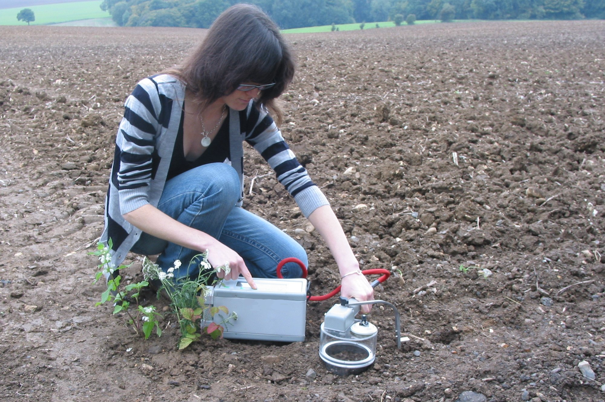 SRS1000 being used to measure soil respiration in the field.